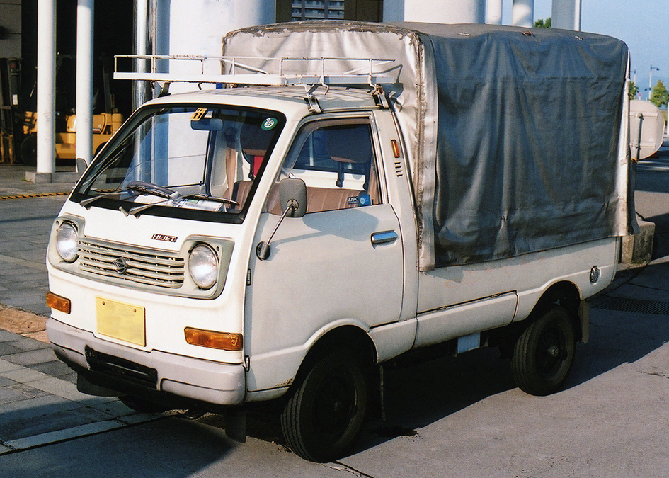 Daihatsu Hijet Truck 360 ( 4th generation )